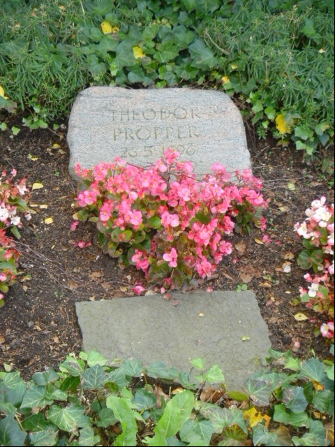 Graveyard of Theodor Pröpper